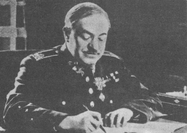 Army General Ludvík Krejci